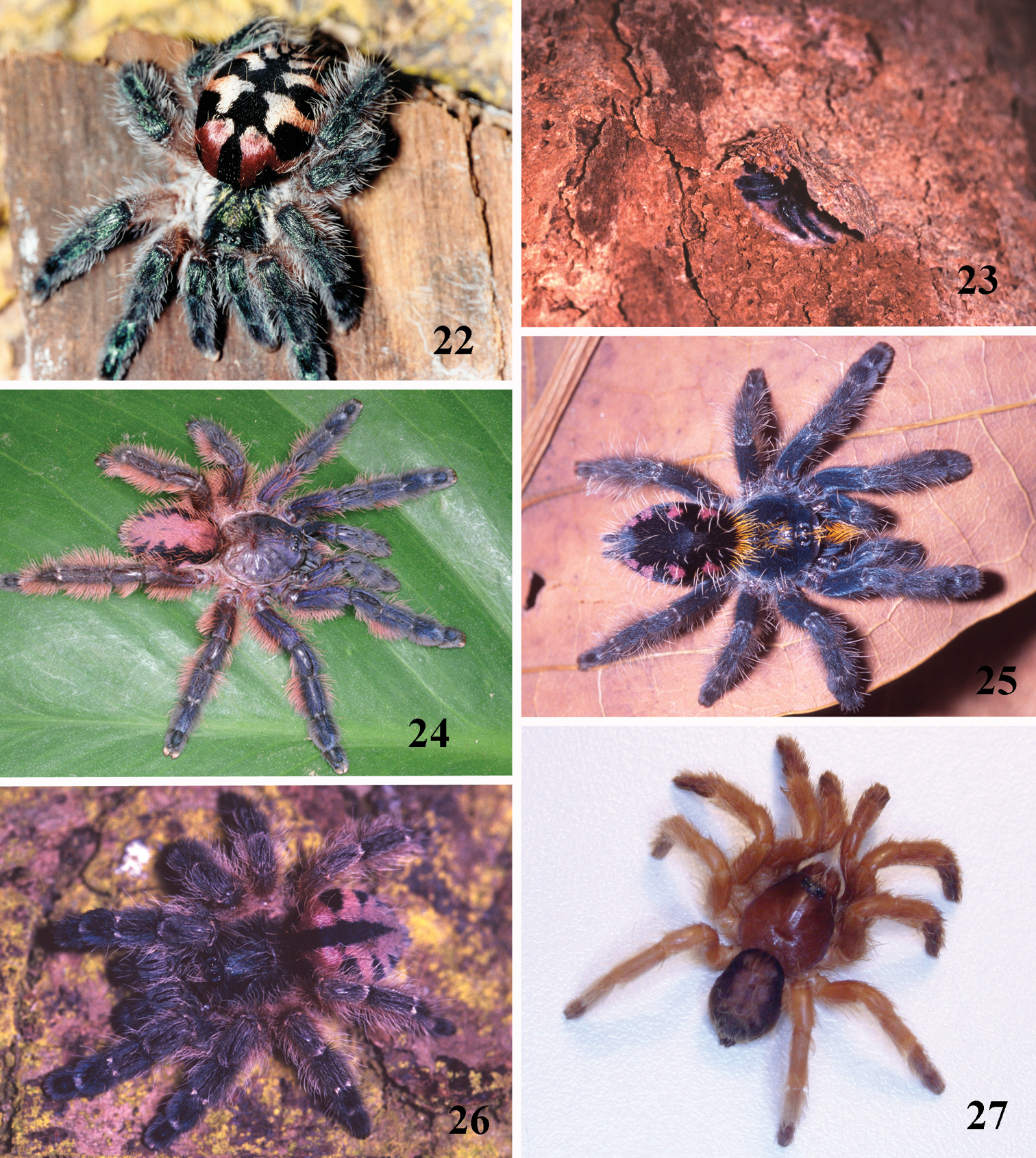 Typhochlaena spp. 22–23 Typhochlaena seladonia C. L. Koch, 1841, habitus 22 female, Santa Luzia do Itanhy, state of Sergipe 23 immature inside its retreat in tree bark, same locality 24 Typhochlaena amma sp. n., female, Santa Teresa, state of Espirito Santo 25 Typhochlaena costae sp. n., female, Palmas, state of Tocantins 26 Typhochlena curumim sp. n., female, Areia, state of Paraiba 27 Typhochlaena paschoali sp. n., preserved female, Camacam, state of Bahia (holotype MNRJ 13723). Photos: R. Bertani.